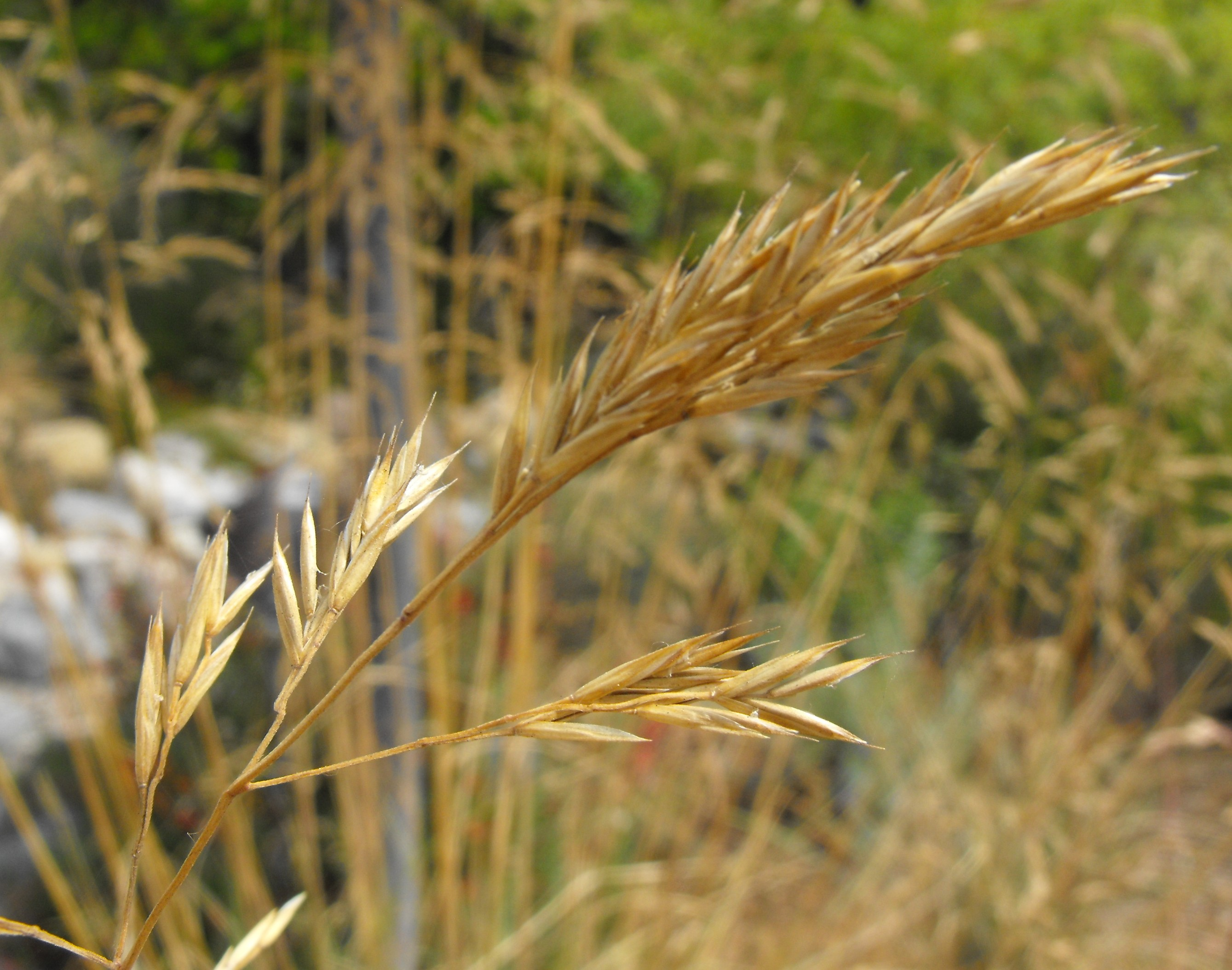 Festuca californica in the Water Conservation Garden at Cuyamaca College in El Cajon, California, USA. Identified by sign.